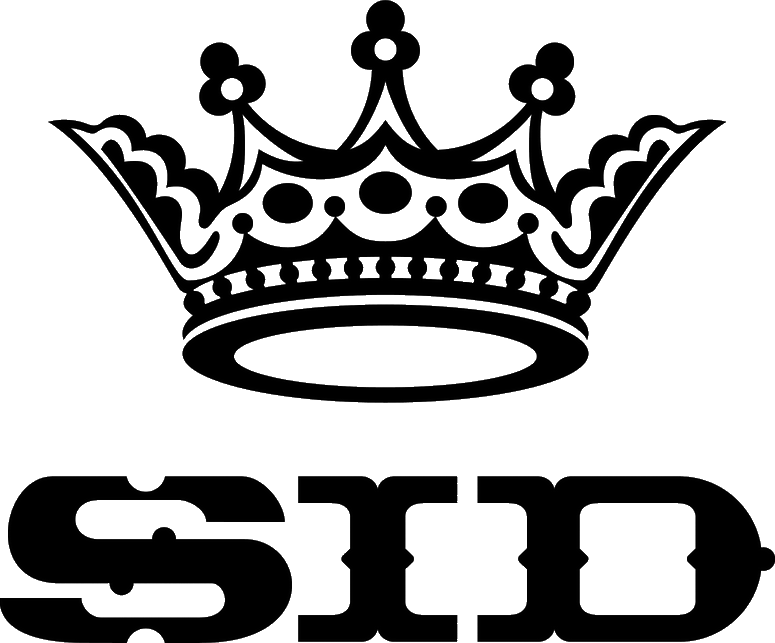 The band's logo.